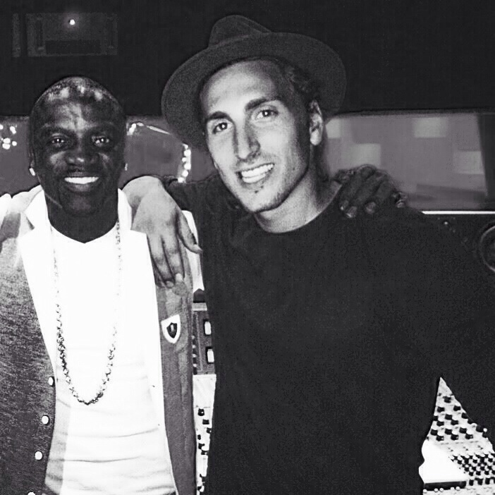 Austin Bis with Akon